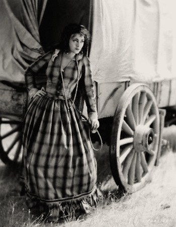 Eve Southern in Fighting Caravans - publicity still